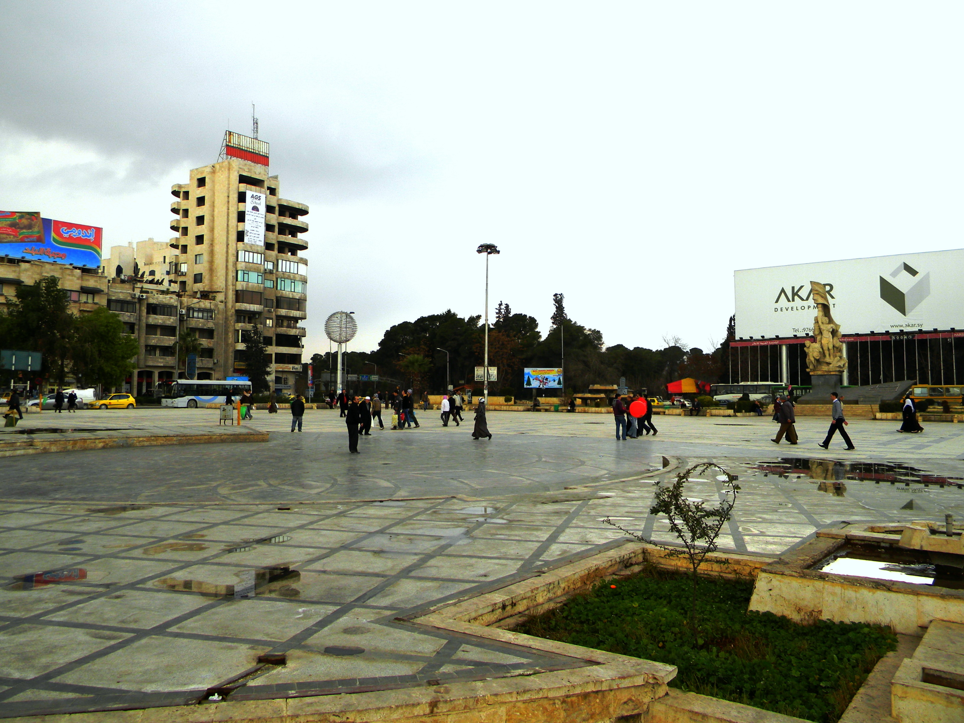 Saadalah al-Jabiri square in the center of Aleppo